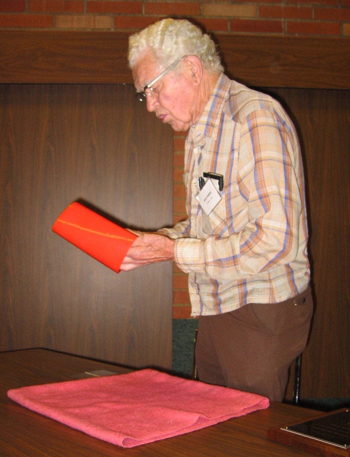 Jerry Andrus performs at Skeptic Toolbox 2004